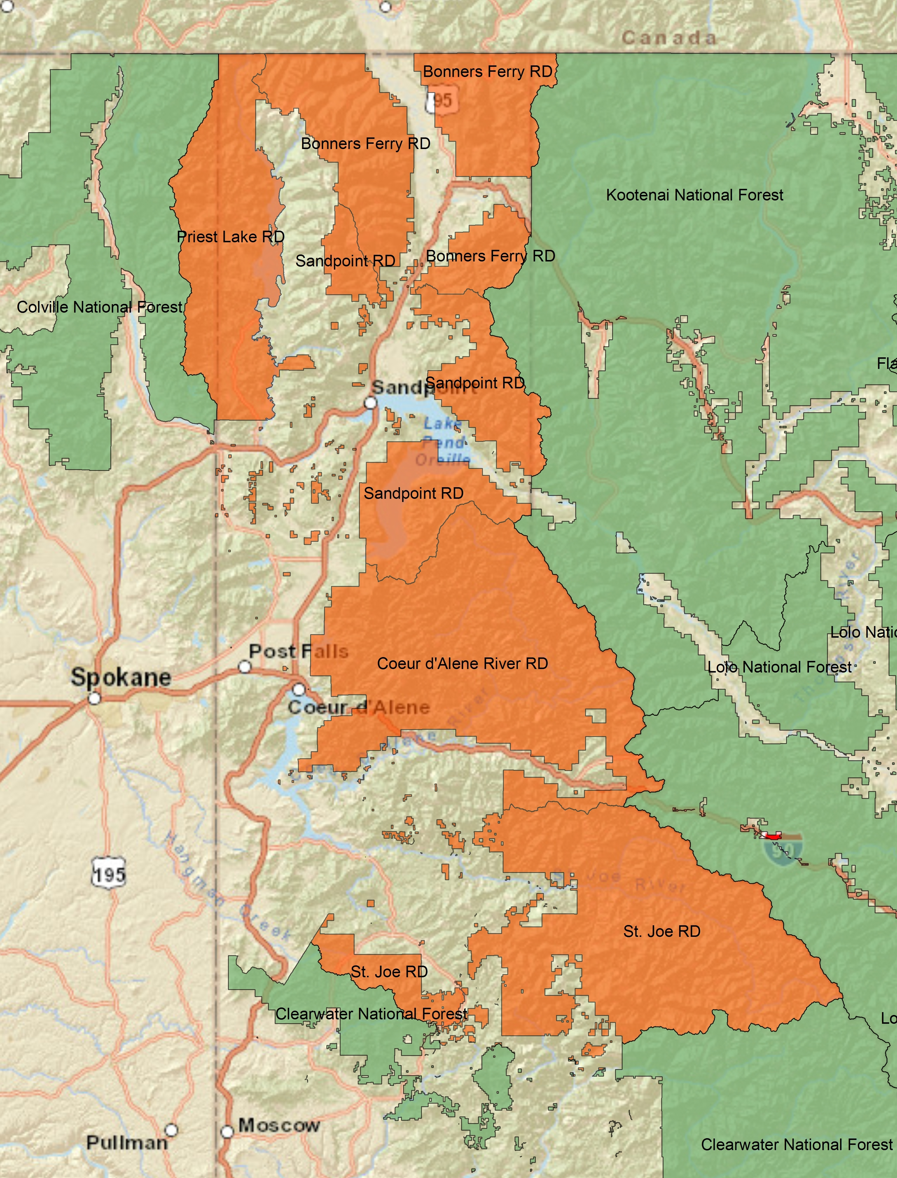 A map of Idaho Panhandle National Forest in Idaho, Montana, and Washington. The Bonners Ferry, Coeur d'Alene River, Priest Lake, St. Joe, and Sandpoint Ranger Districts of the forest are in orange. Surrounding national forests, including Clearwater, Colville, Kootenai, and Lolo are in green. This map was made using ARCMAP 10.1, and all data are in the public domain. Forest Service boundary data are from the US Forest Service FSGeodata Clearinghouse